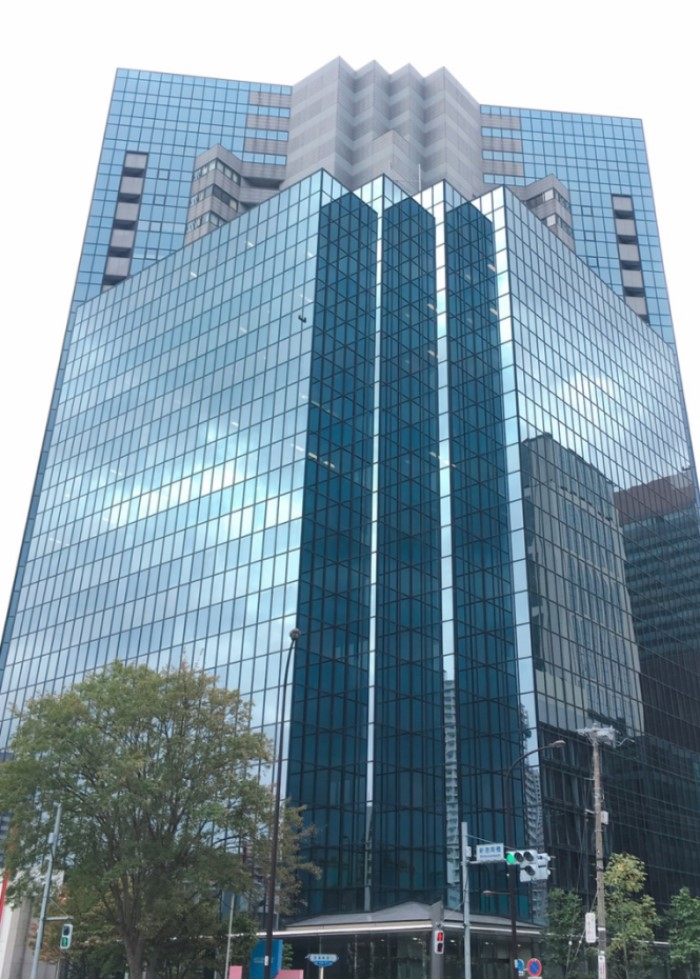 9F eBay Japan G.K. Qoo10